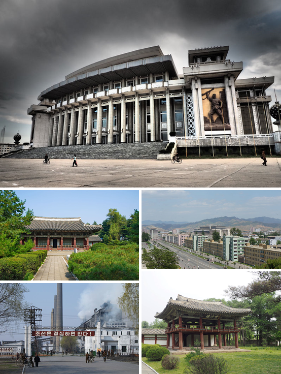 Collages of Hamhung City, North Korea.